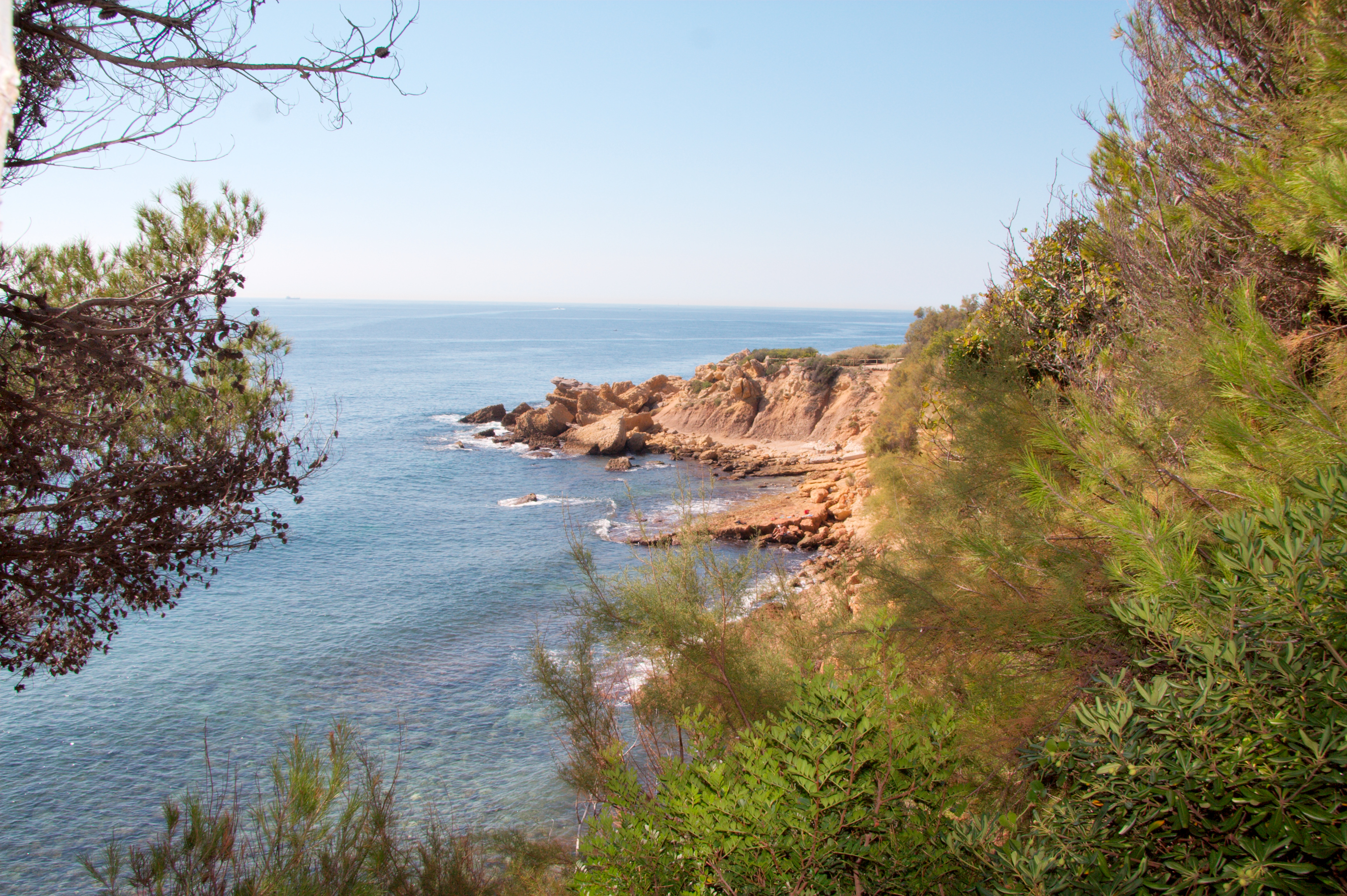 Carry-le-Rouet (Bouches-du-Rhône, France)